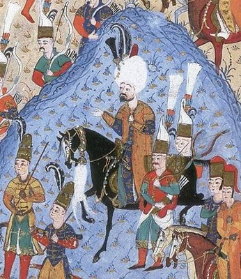 Illustrations of Ottoman soldiers from the Süleymanname